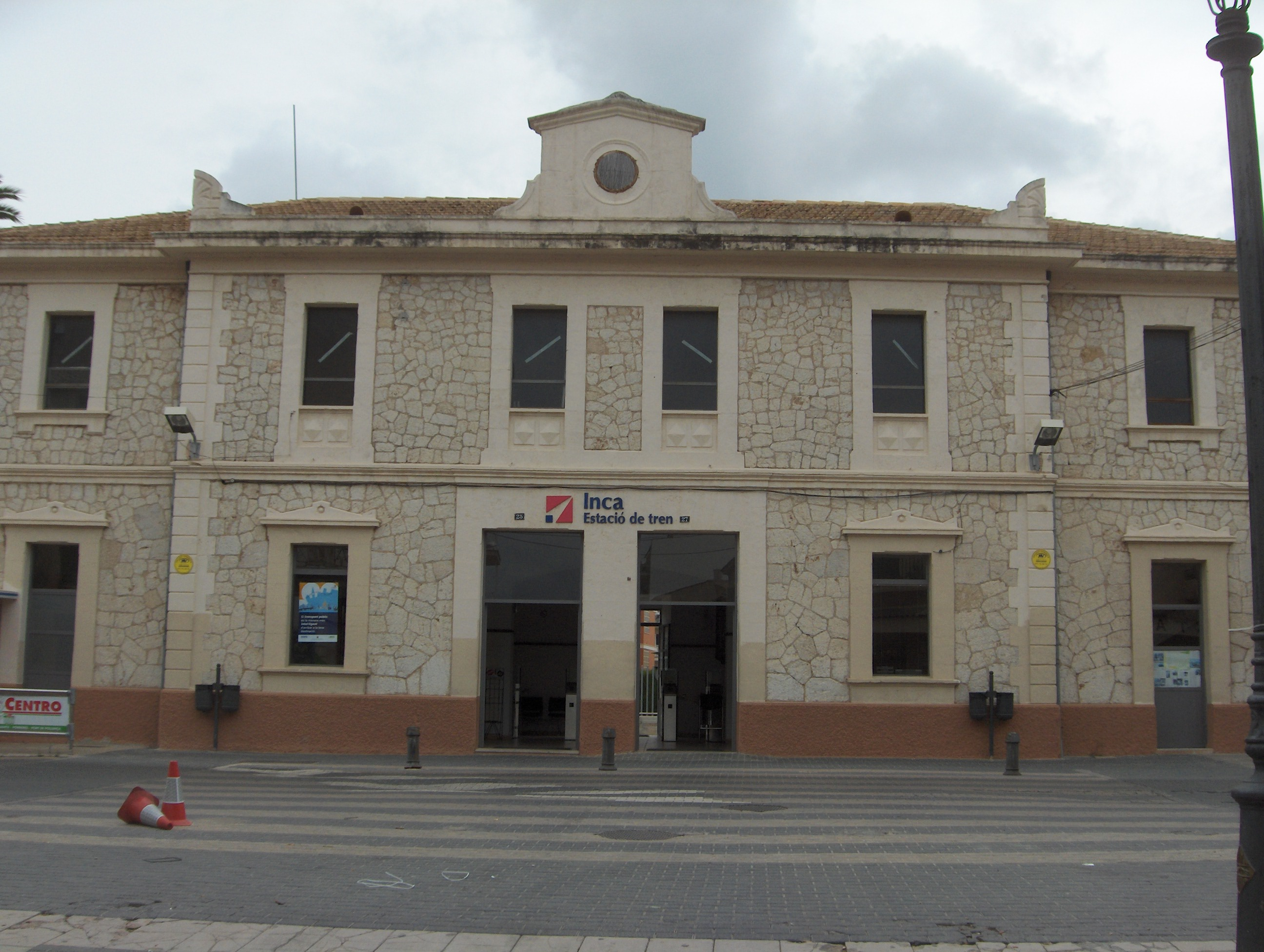 Station building of the SFM in Inca on Mallorca